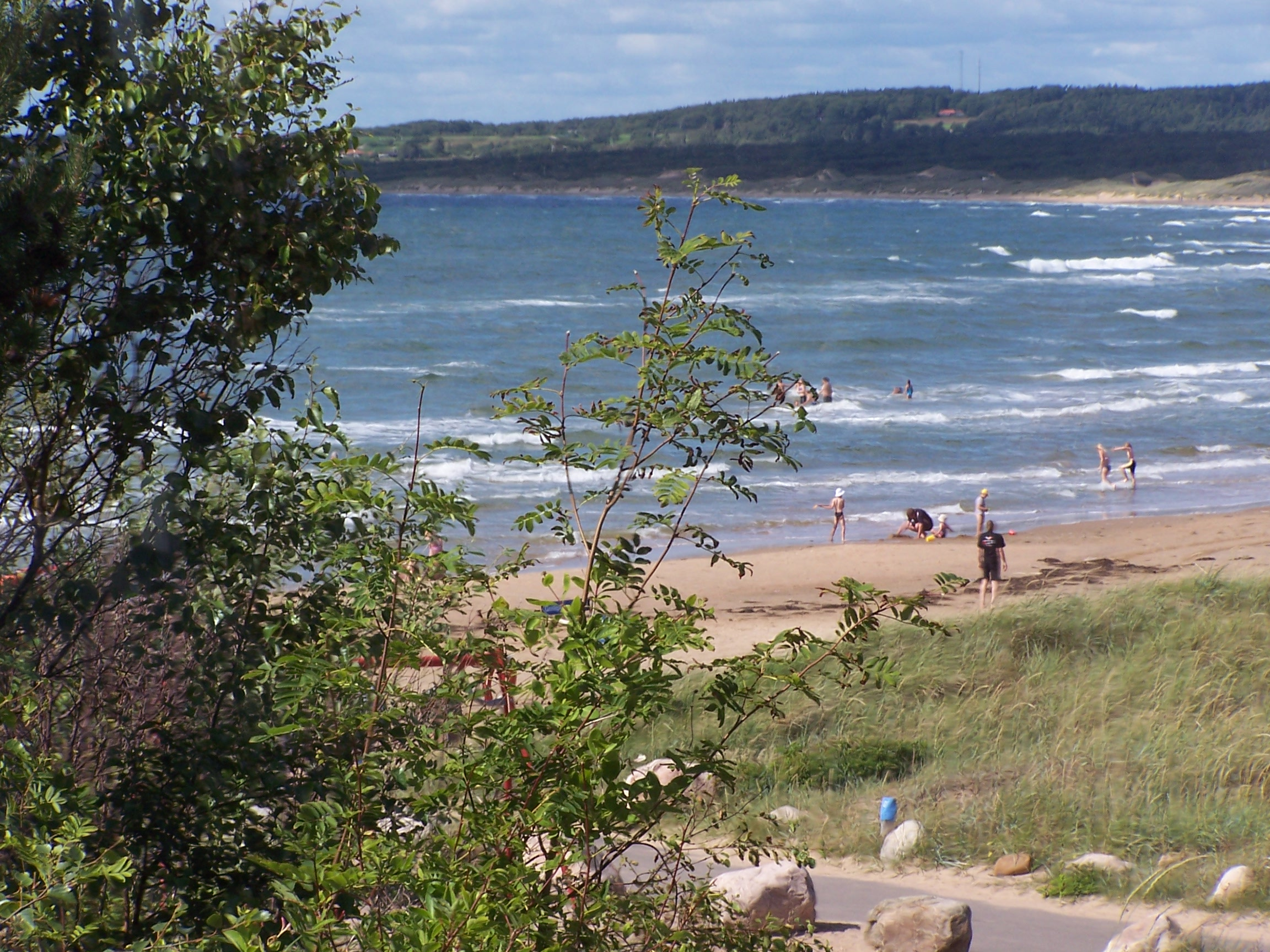 Beach of Tylösand, as seen from the restaurant Paradiso